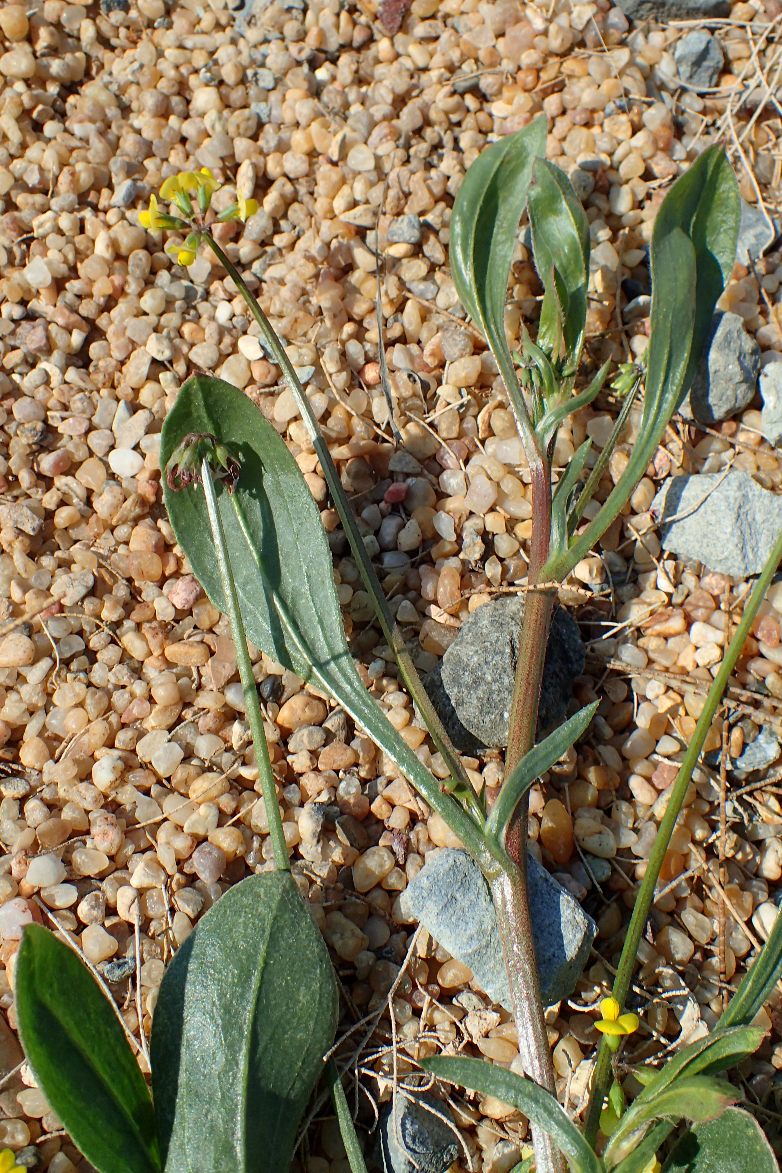 Scorpiurus muricatus at Kiti Cape, Cyprus